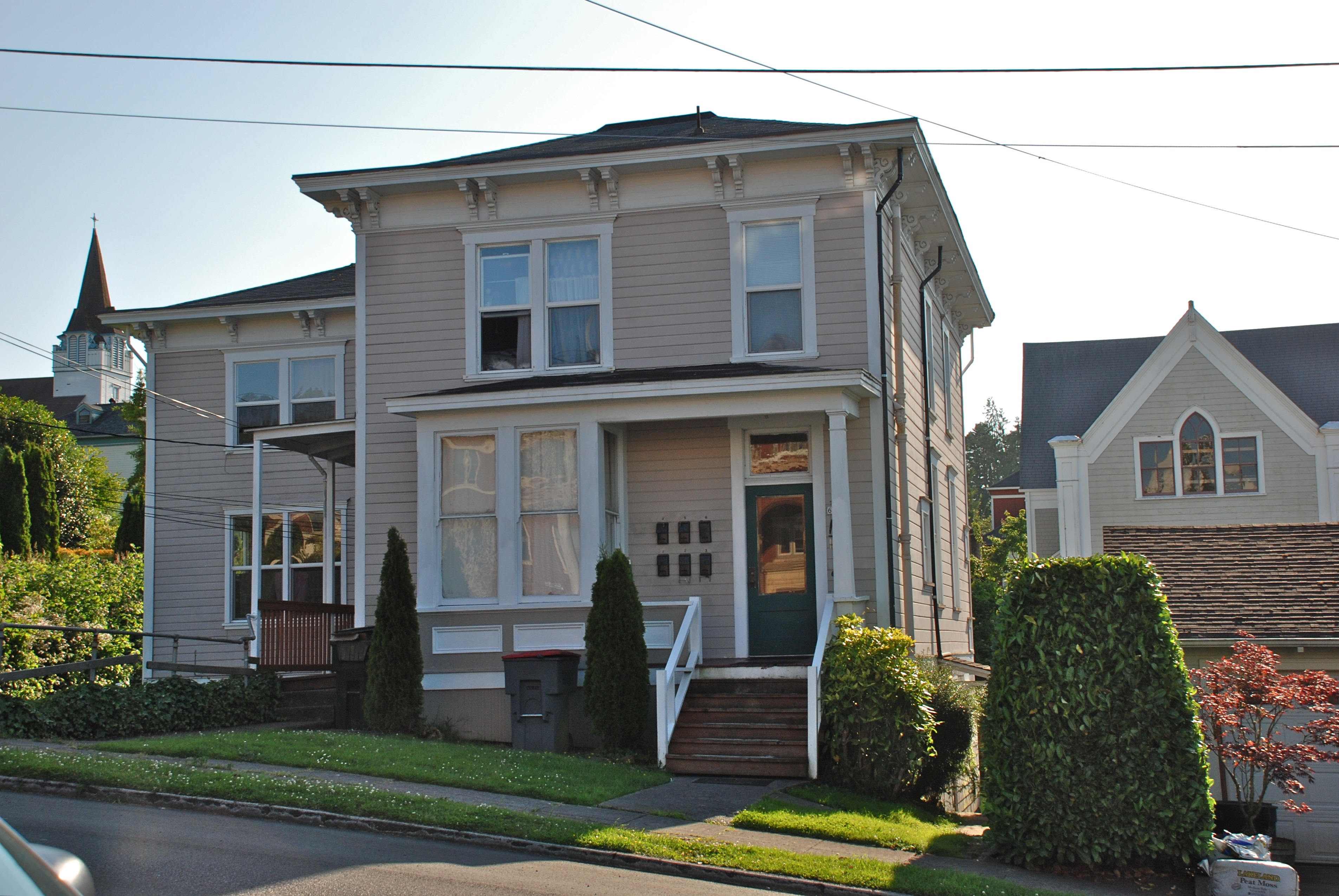 The Old Grace Episcopal Church Rectory (built in 1887), at 637 16th Street in Astoria, Oregon, is listed on the U.S. National Register of Historic Places. In the righthand background of this photo can be seen a portion of the west side of the church associated with this rectory, Grace Episcopal Church (which faces Franklin Avenue).